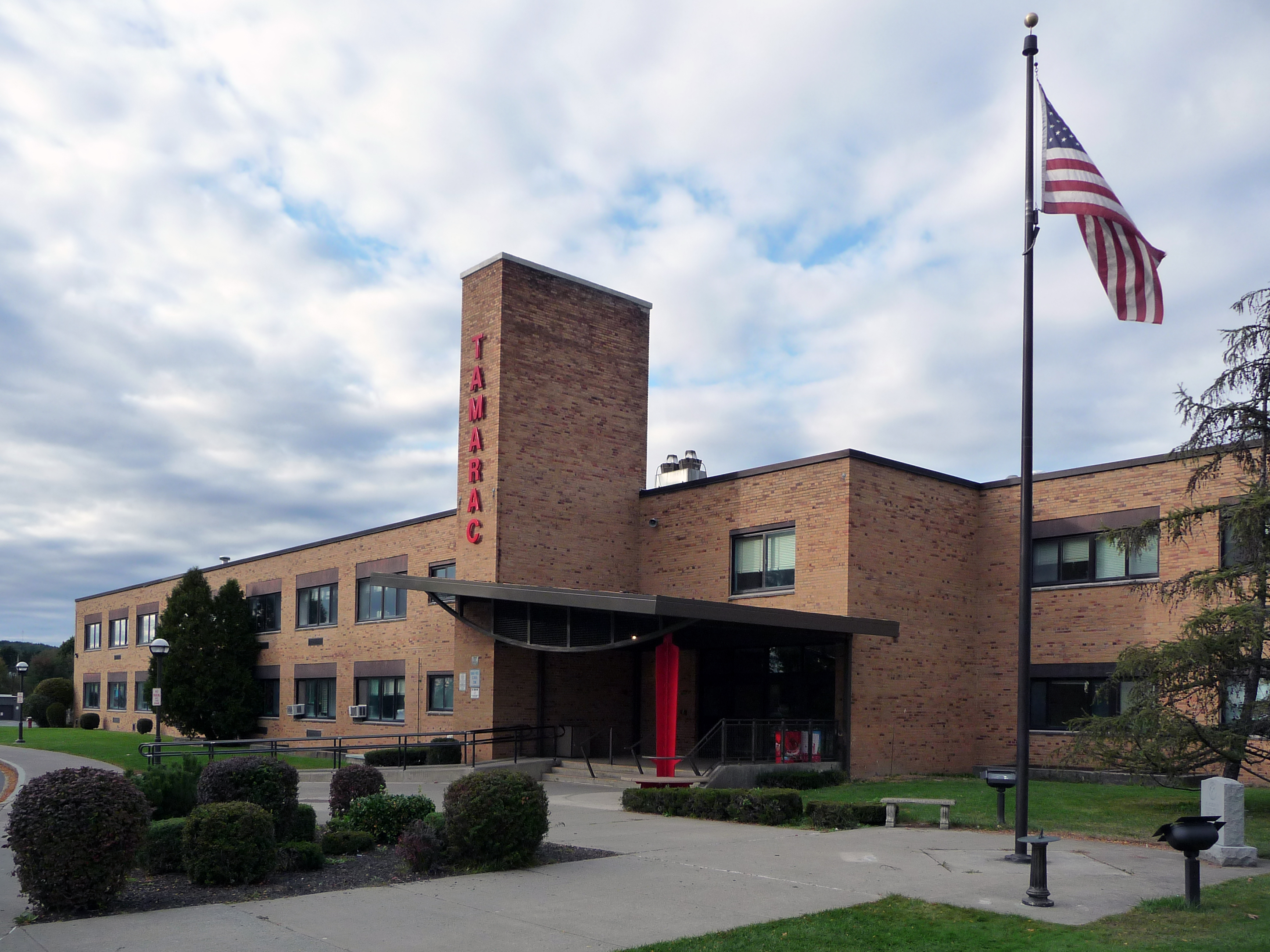 Tamarac Secondary School, part of Brunswick (Brittonkill) Central School District located outside Troy, New York, and home of Tamarac Middle School and Tamarac High School